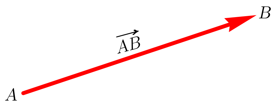 A Vector Arrow